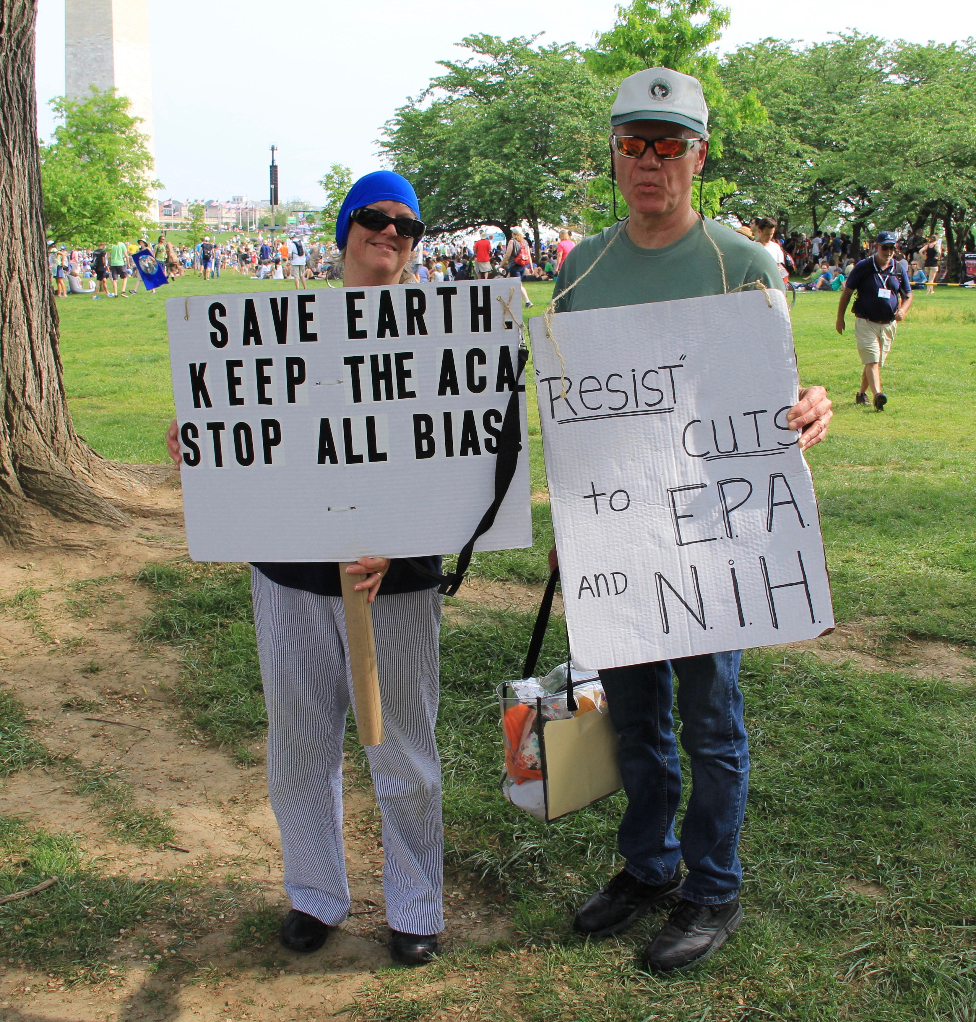 People's Climate March 2017 in Washington DC. Middle aged couple with signs, "Resist cuts to EPA and NIH." (Environmental Protection Agency and National Institutes of Health.) "Save the earth, Keep the ACA, Resist all bias.